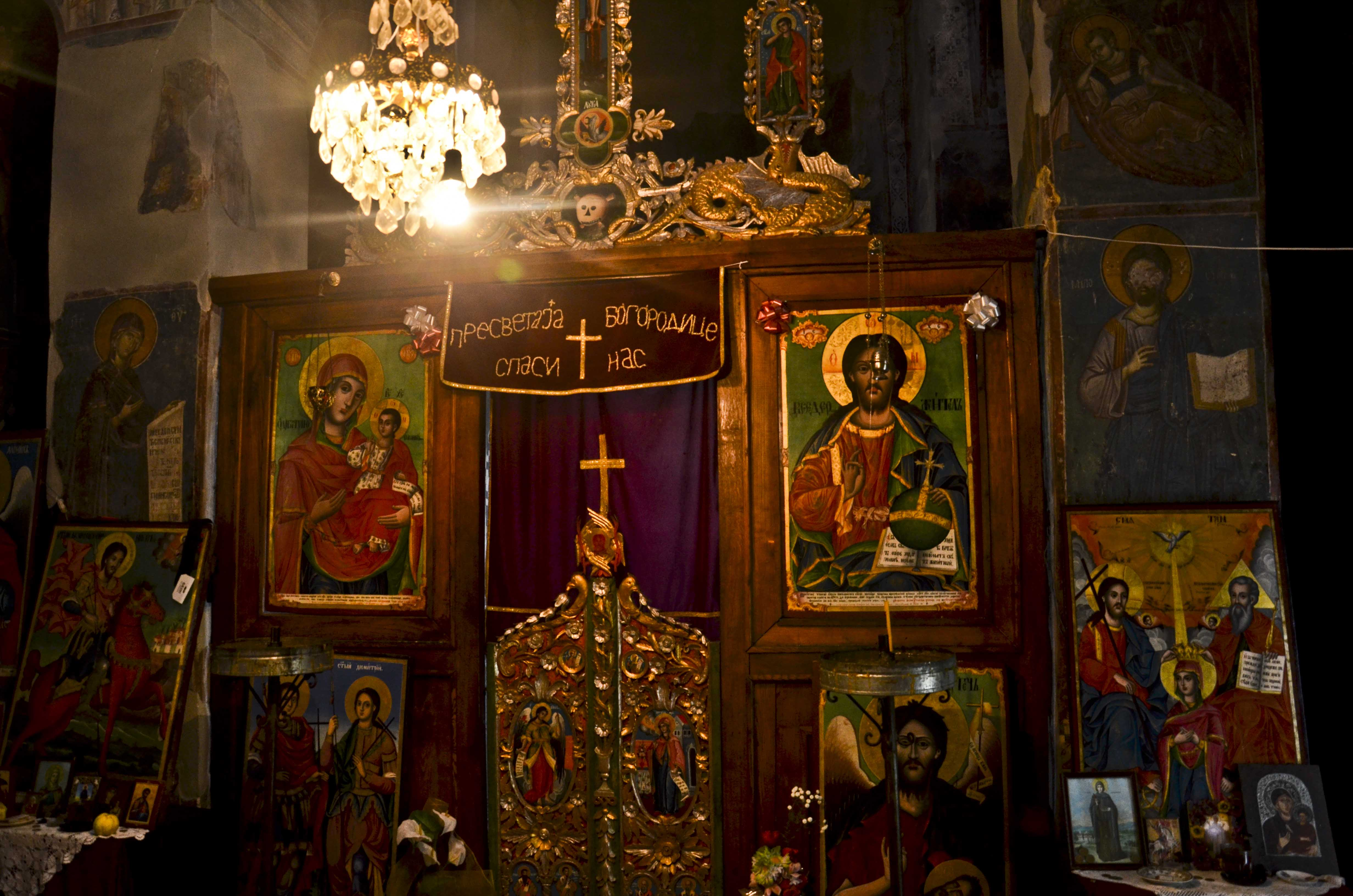 Дел од иконостасот и внатрешноста на црквата Свети Никита, село Бањани, скопско